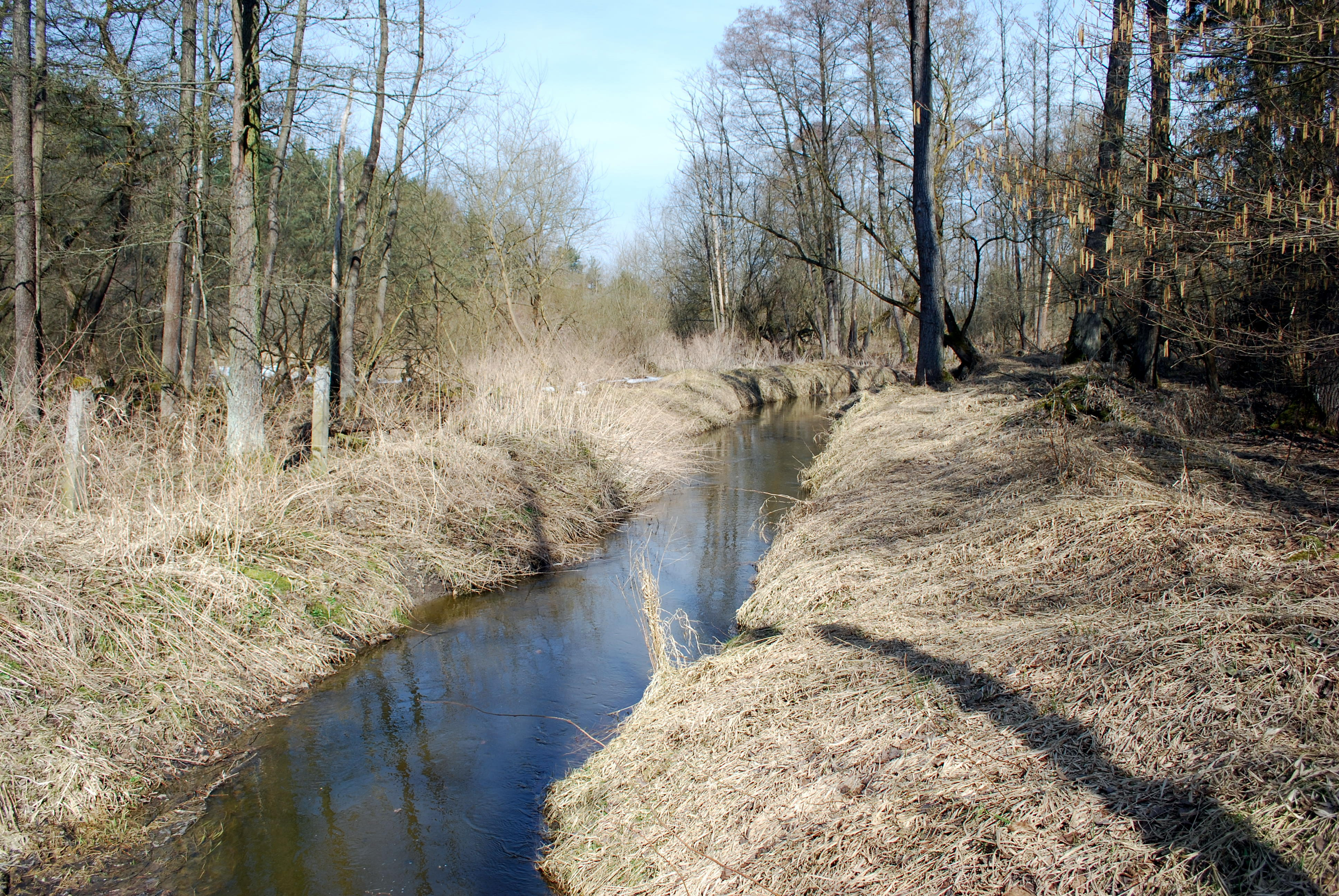 Canal Zlatá stoka in Třeboňsko area, Czech Republic. This photograph was taken within the scope of the 'Czech Municipalities Photographs' grant. - OpenStreetMap(Info)